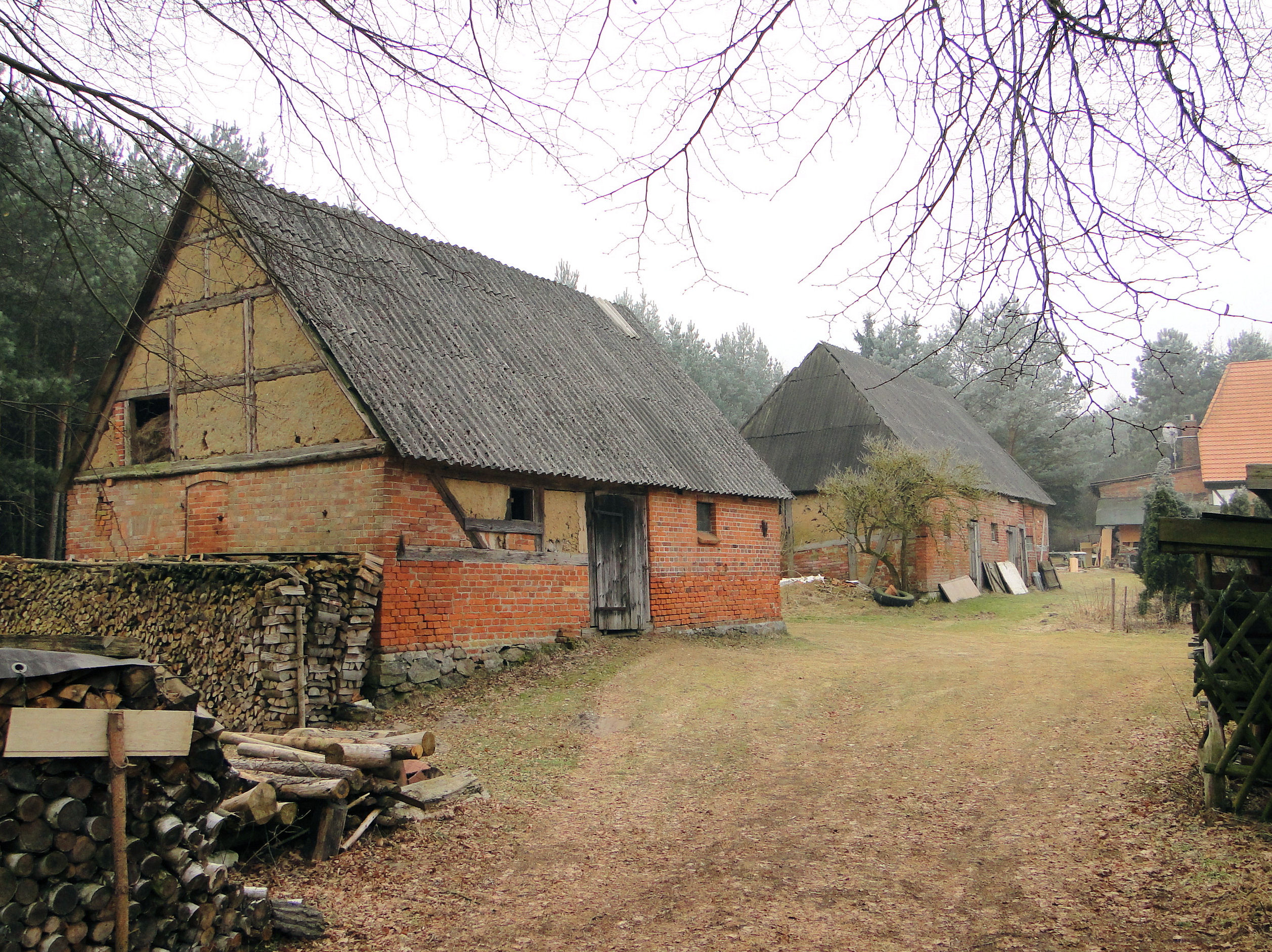 Sties in Jellen, district Parchim, Mecklenburg-Vorpommern, Germany